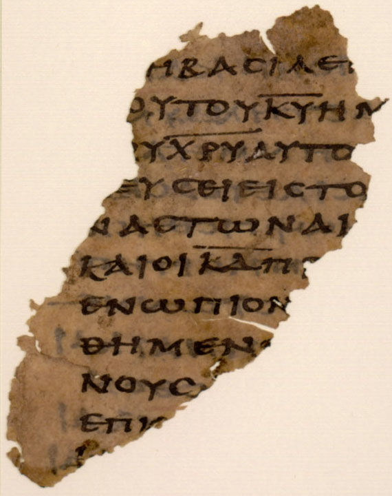 It is a small fragment of the text of the Revelation 11,15-16